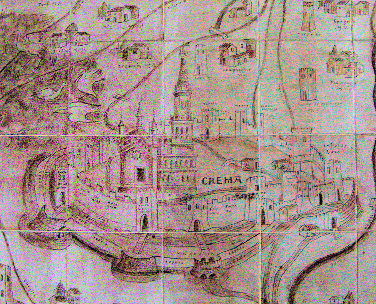 Detail of territory of Crema, ceramic reproduction of the oldest map of the town dating from the fifteenth century, now preserved in the Library of "Museo Correr" in Venice